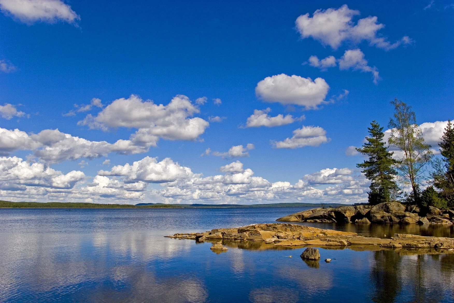 Stora Gla, swedish seascape in Värmland, Sweden